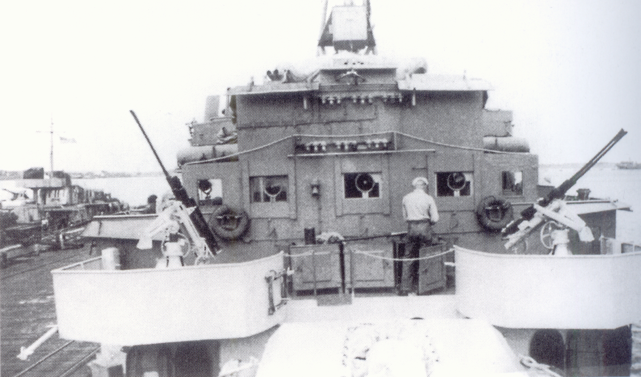 Former T 35 as DD 935, August 1945 in Boston, Massachusetts.